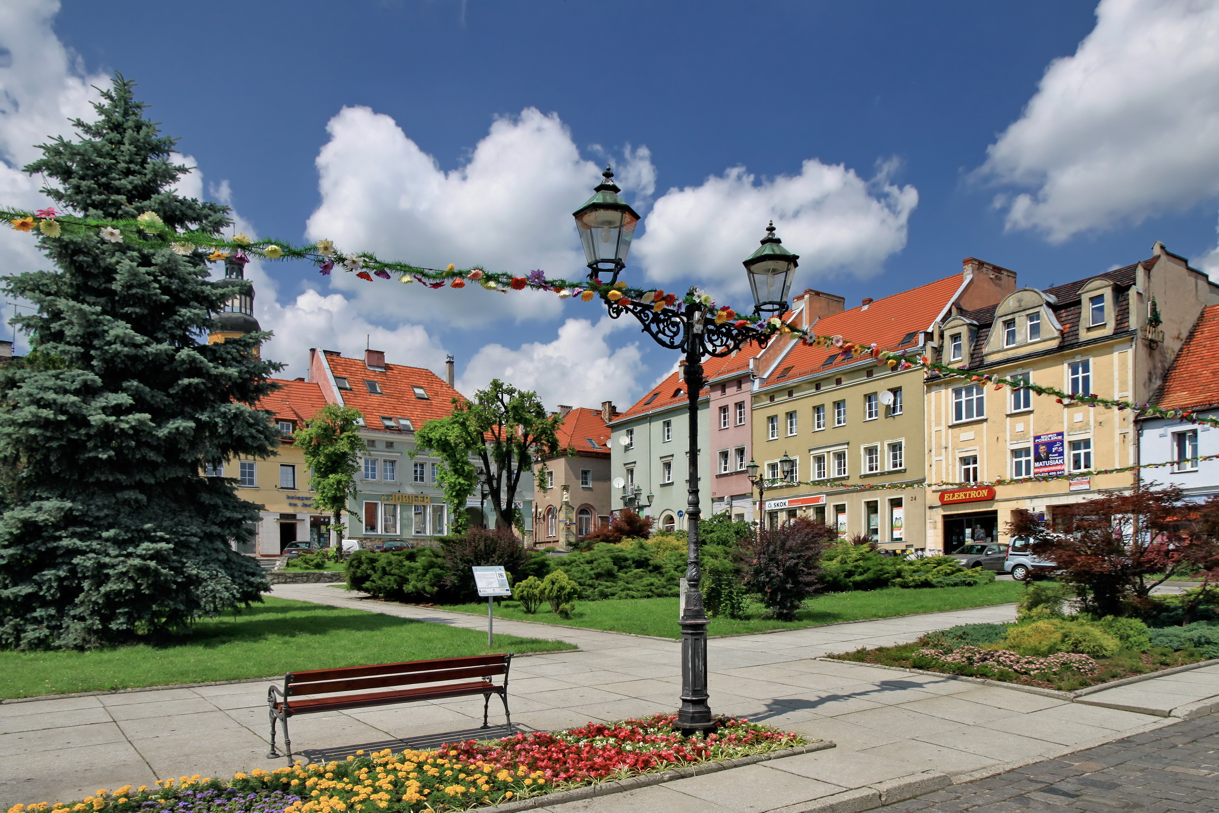 Market Square in Wodzisław Śląski